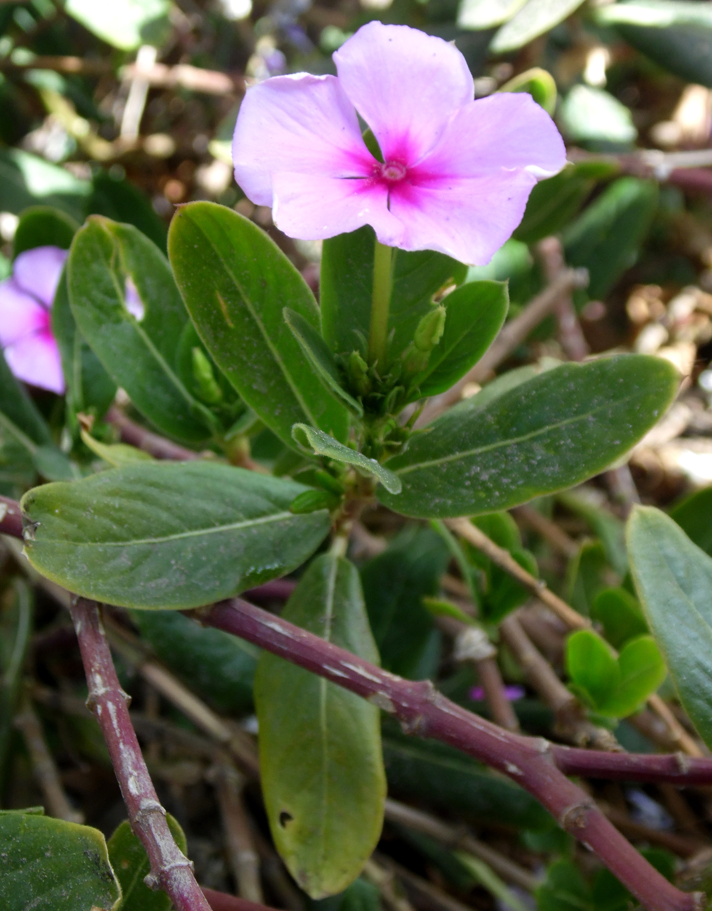 Catharanthus roseus in Parque Botánico de Maspalomas, Gran Canaria